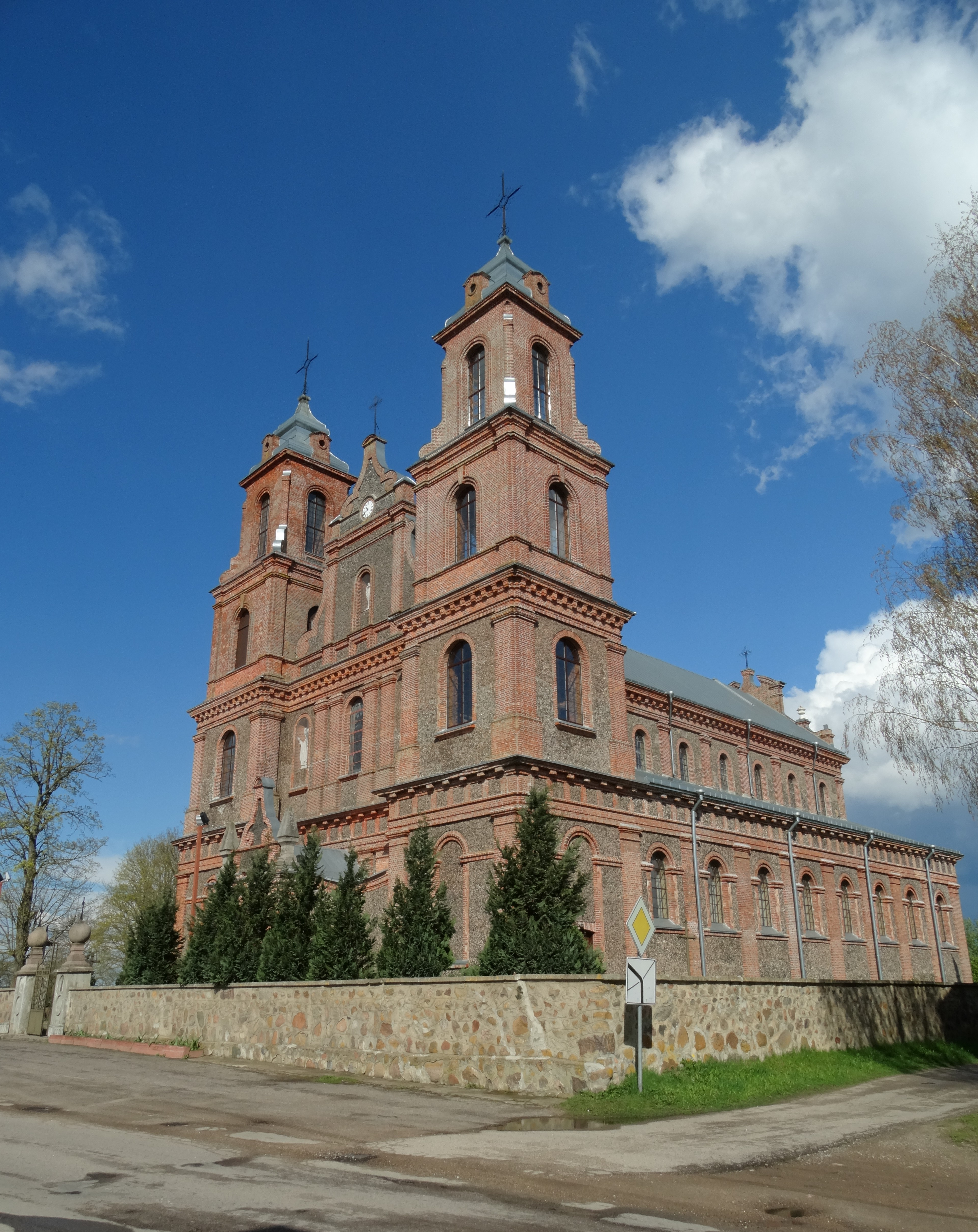 Church of the Assumption of The Holy Virgin Mary, Turgeliai, Šalčininkai District, Lithuania